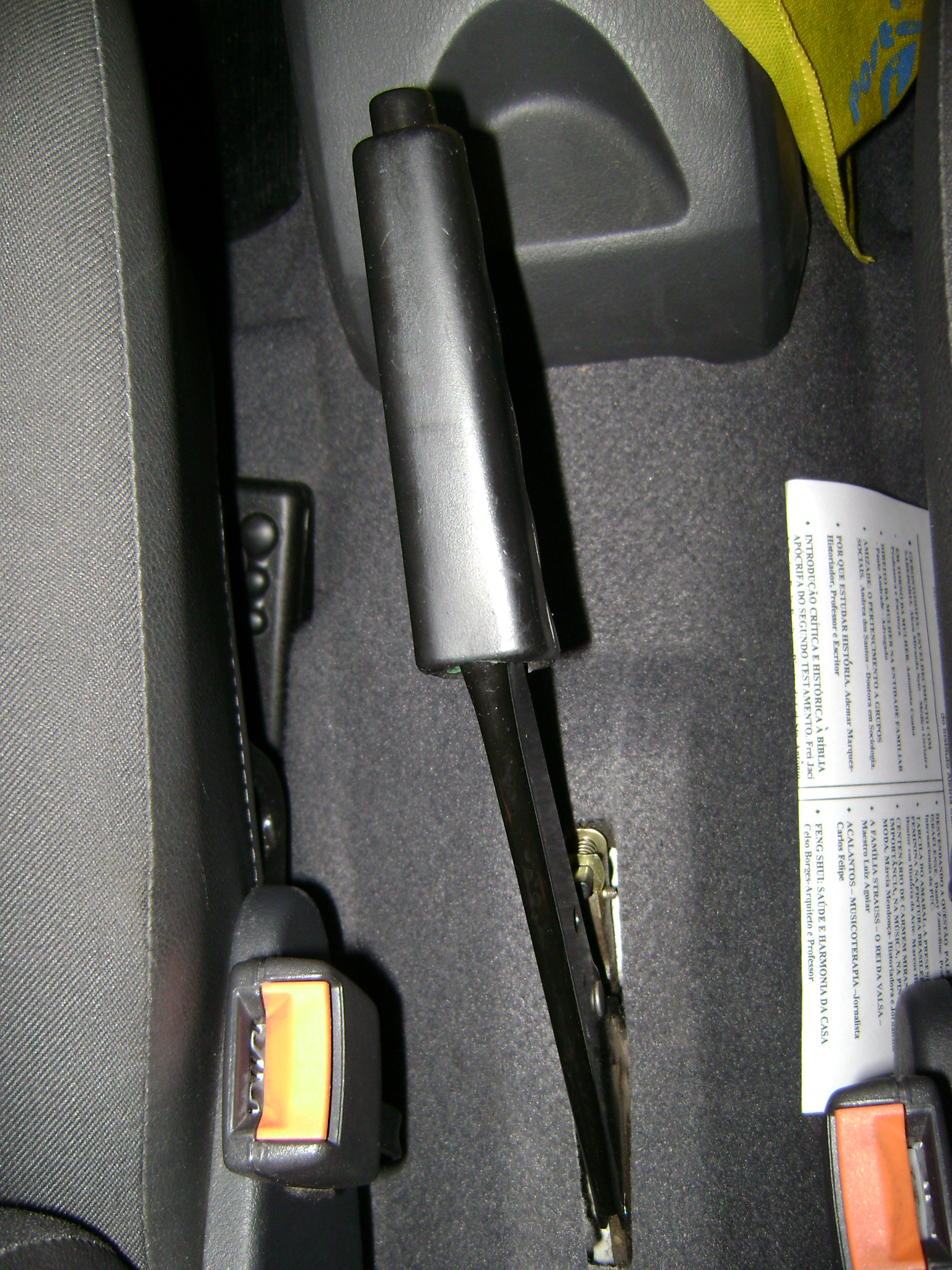 Freio de mão